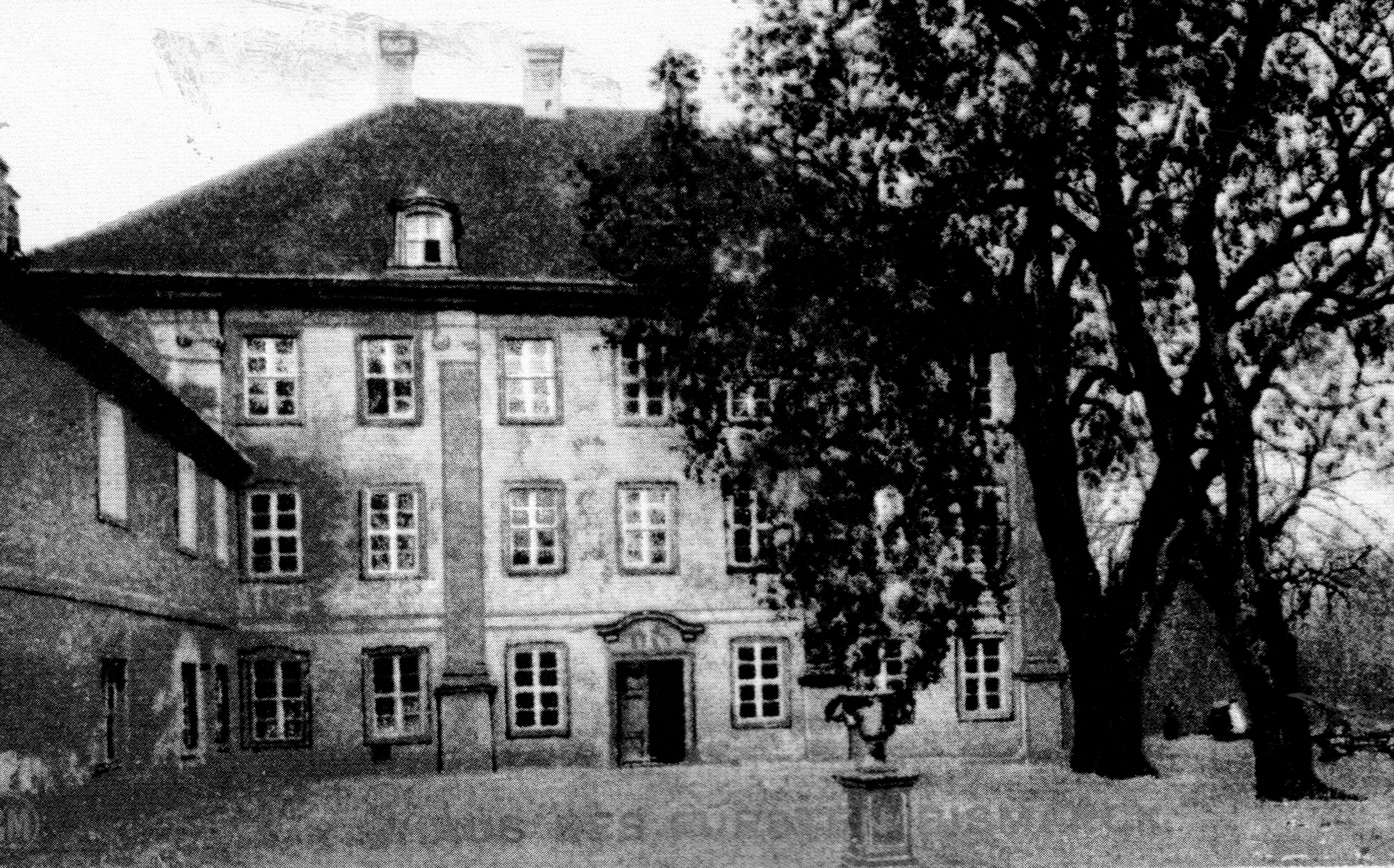 Otto von Bismarck's birthlpace, Schloss Schoenhausen